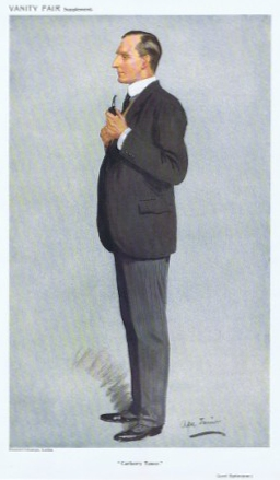 Caricature of The Rt Hon Lord Elphinstone. Caption read "Carberry Tower".